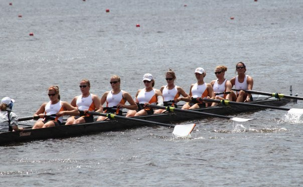 UT Rowing